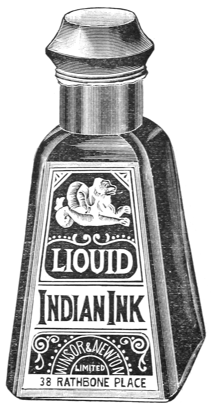 A bottle of Winsor & Newton Liquid Indian Ink illustrated in an 1897 catalogue